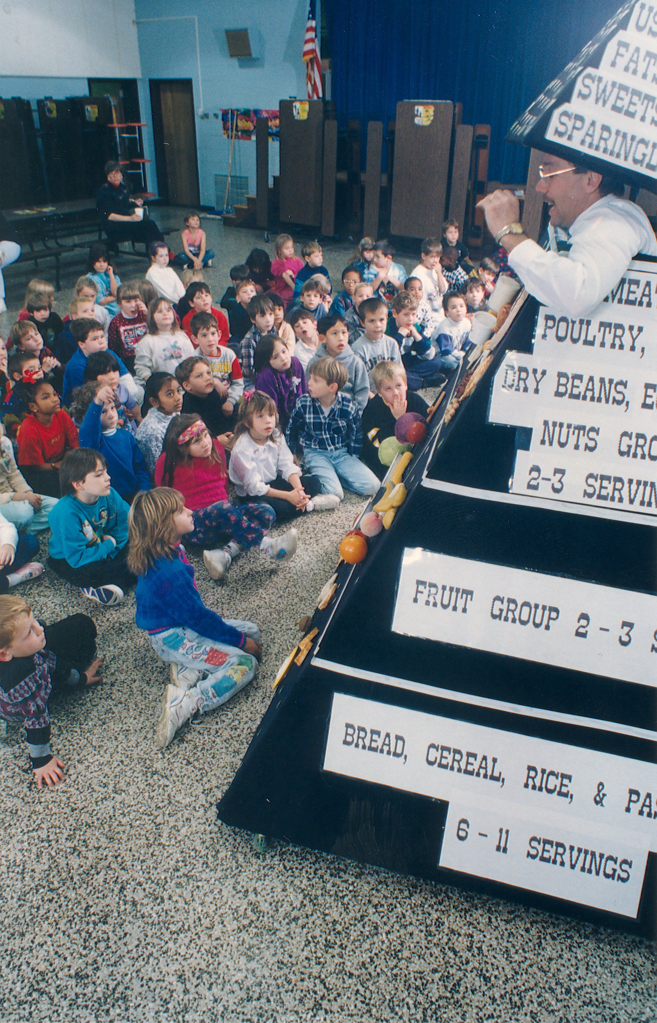 Lecture on the USDA Food Pyramid